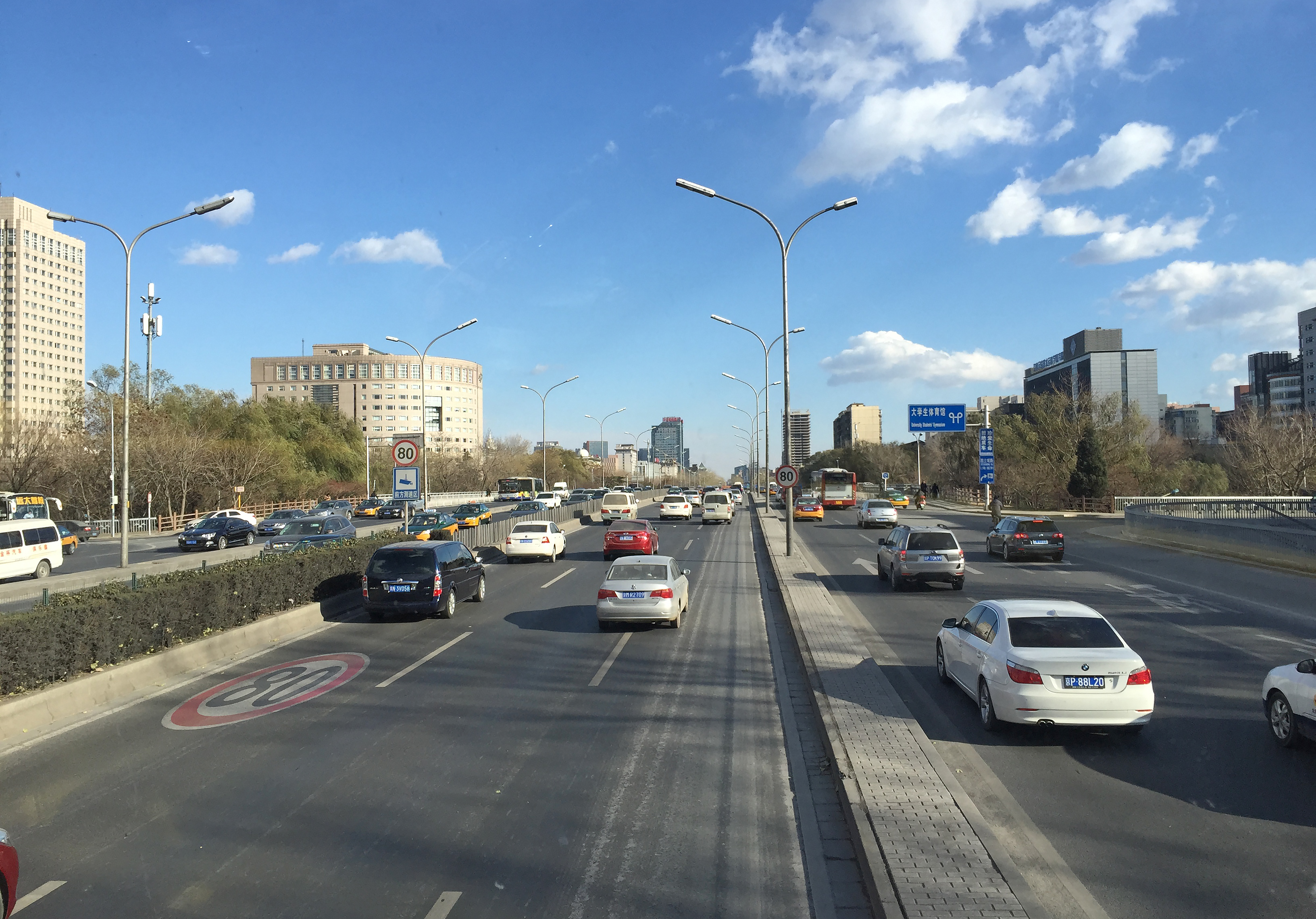 Taken from the upper deck of T8.